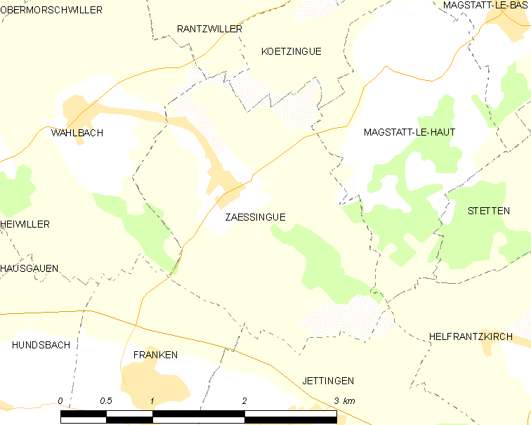 Map of French municipality